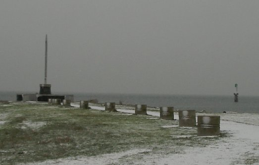 Steveston Fisherman's Memorial. I made this image and release this image to the public with no restrictions.